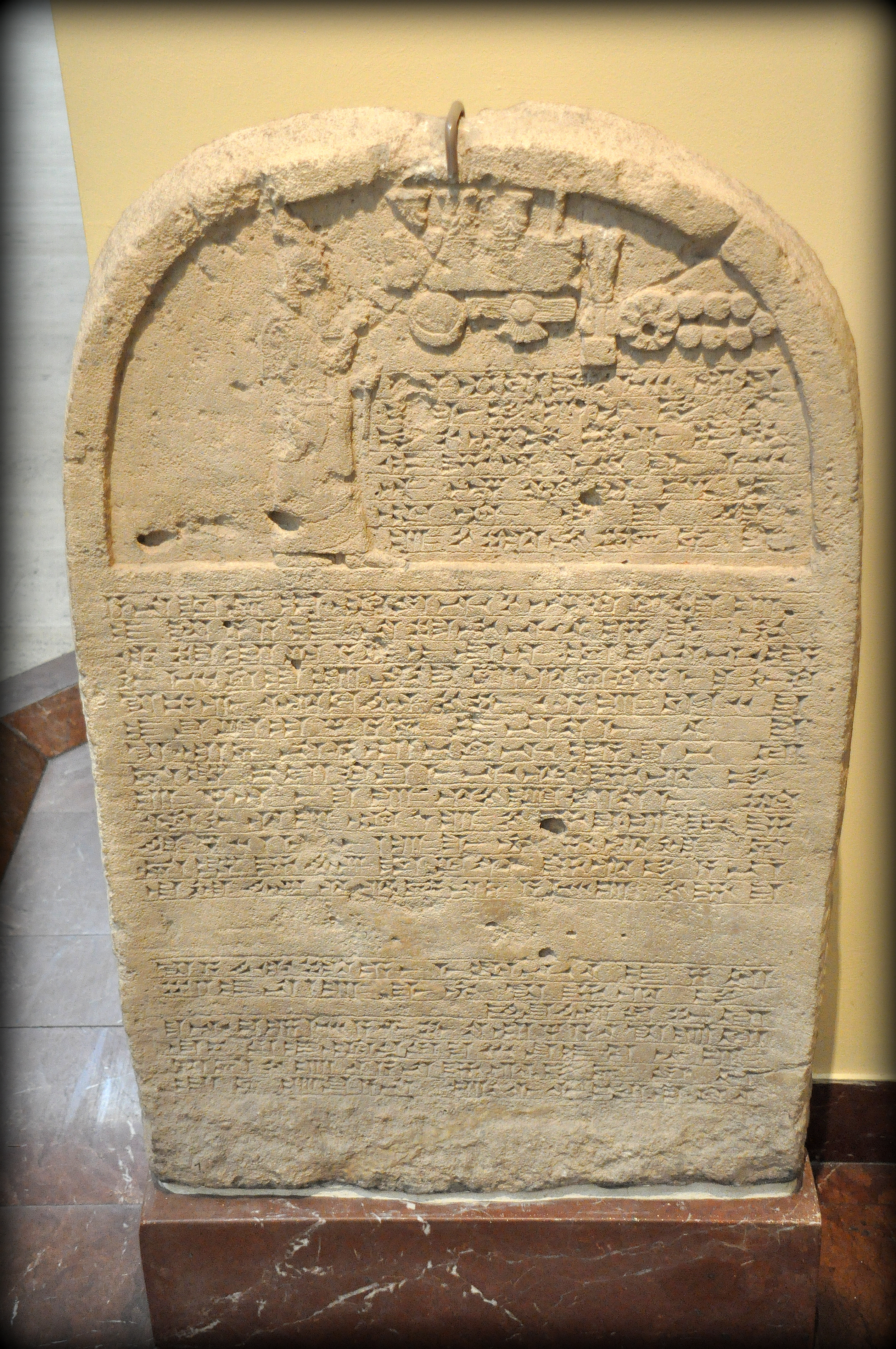 The Assyrian king Sennacherib appears to pray in front of god/goddesses symbols. This limestone stele records the king's achievements and expansion of his royal capital, Nineveh. Neo-Assyrian period, 705-681 BCE. From Nineveh, Mesopotamia, northern Iraq. Ancient Orient Museum/Istanbul Archeological Museums, Turkey.